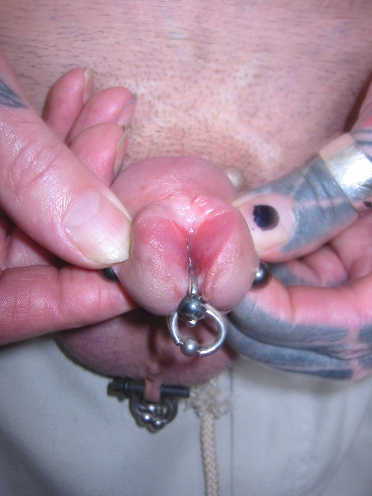 bifurkation of the glans penis